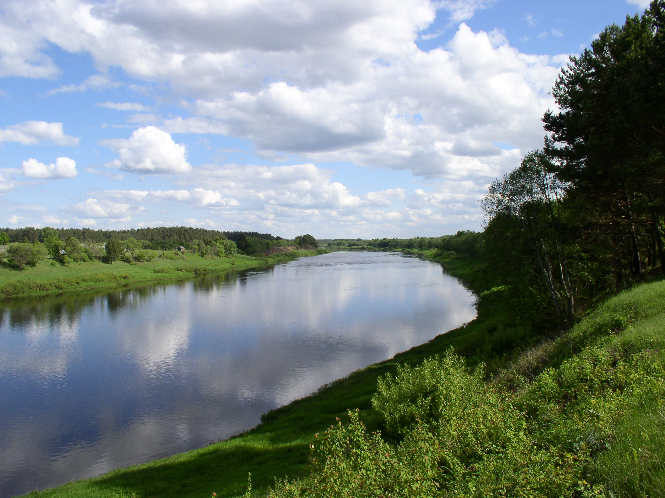 Dzvina river, Belarus.